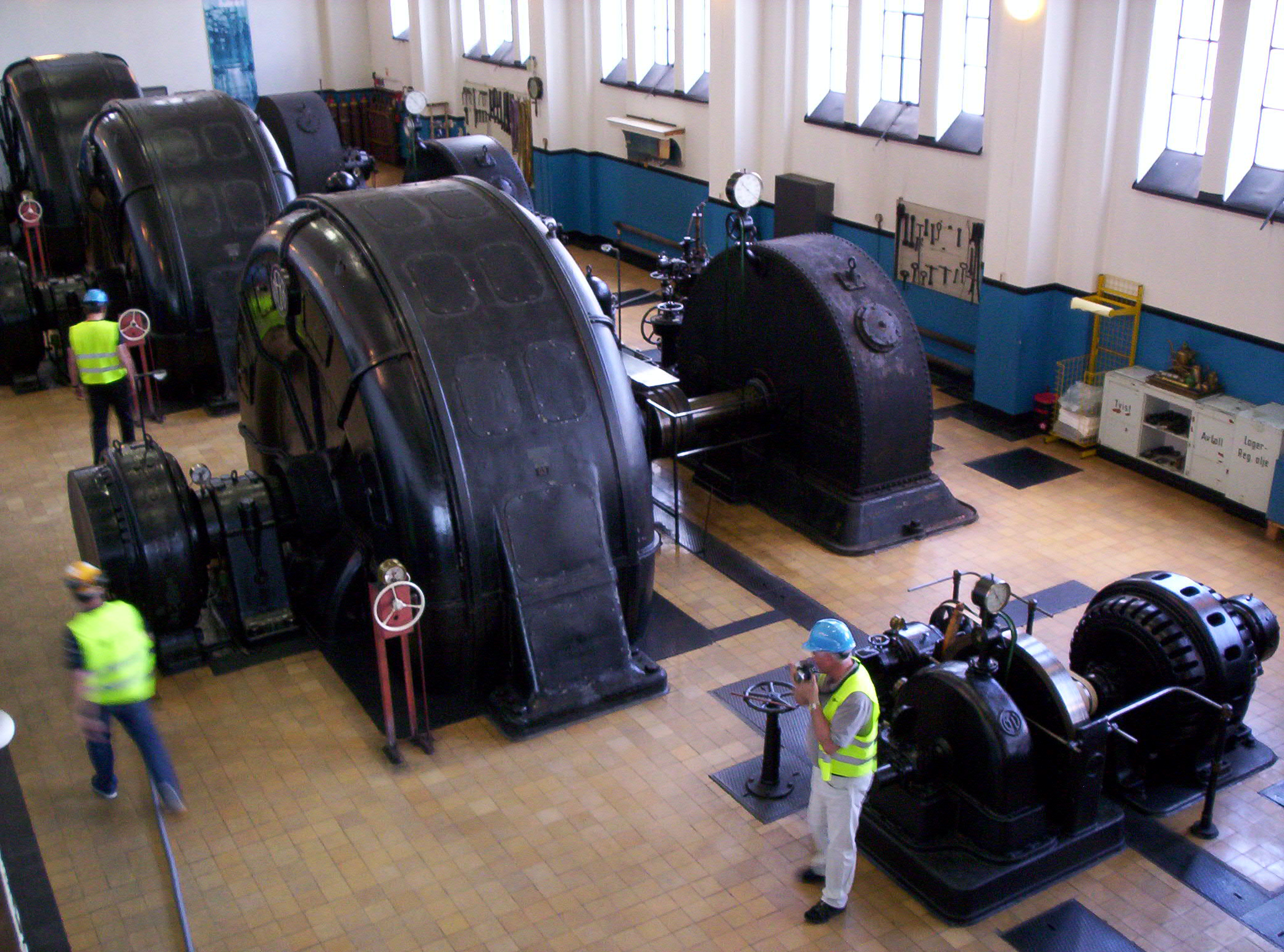 Generator 3 (single phase 16 2/3 Hz for railway) and a small generator (3 phase 50 Hz for local supply) in the hydropower plant Hakavik, in Buskerud, Norway.